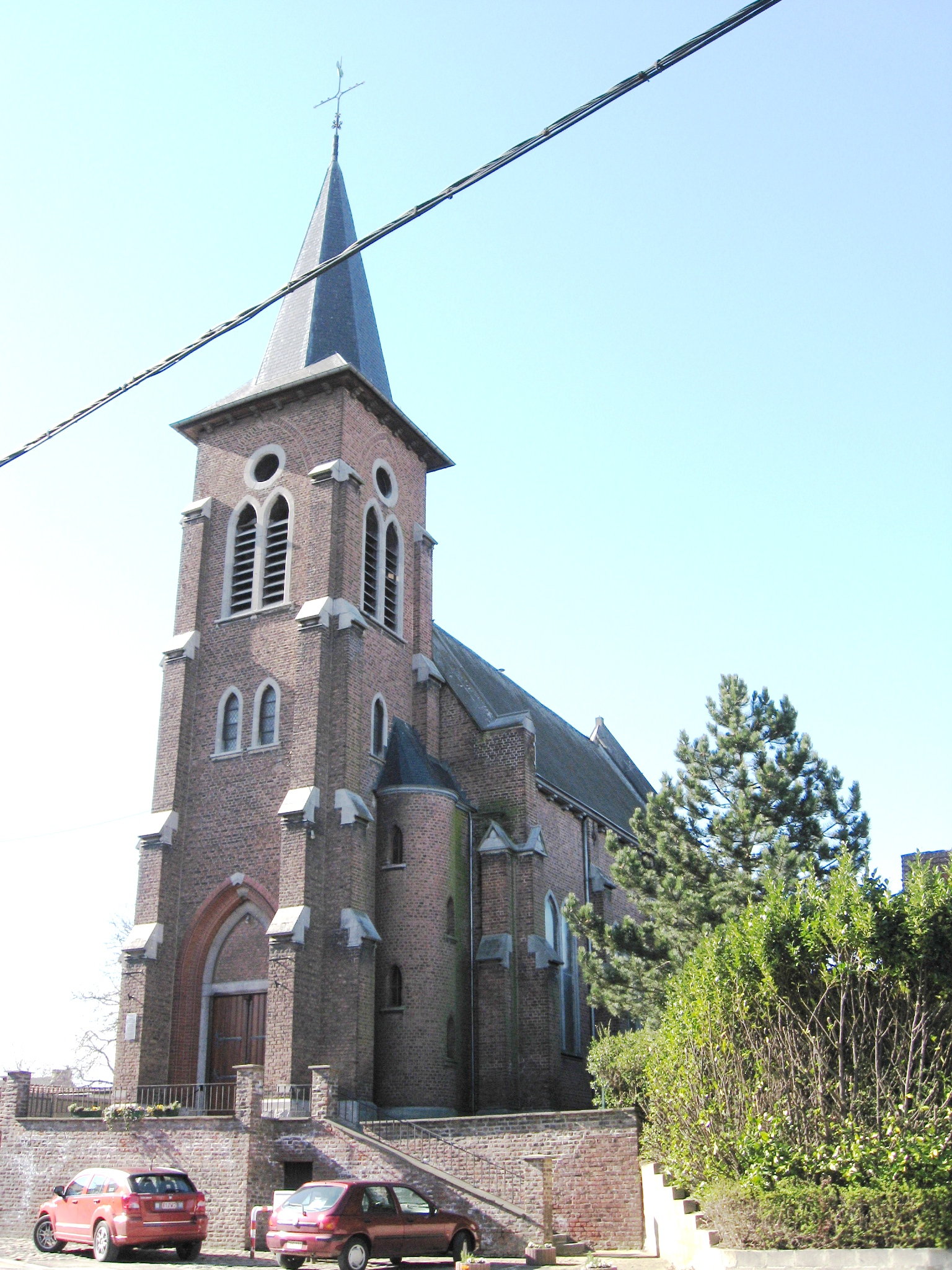 Church of Saint Peter in Hognoul, Awans, Liège, Belgium